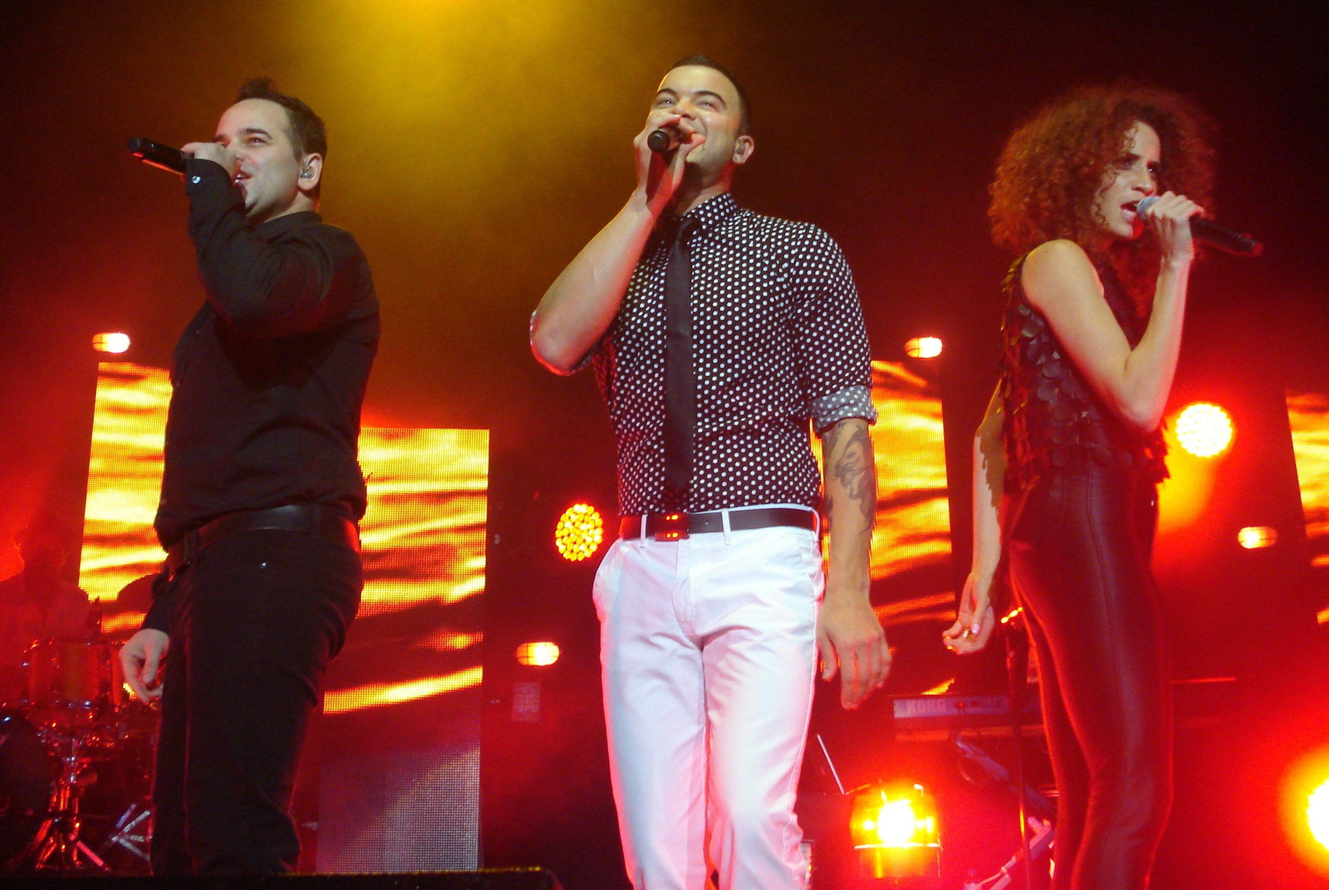 Guy Sebastian, Gary Pinto and Carmen Smith on the Armageddon Tour 2012 on 1st July 2012